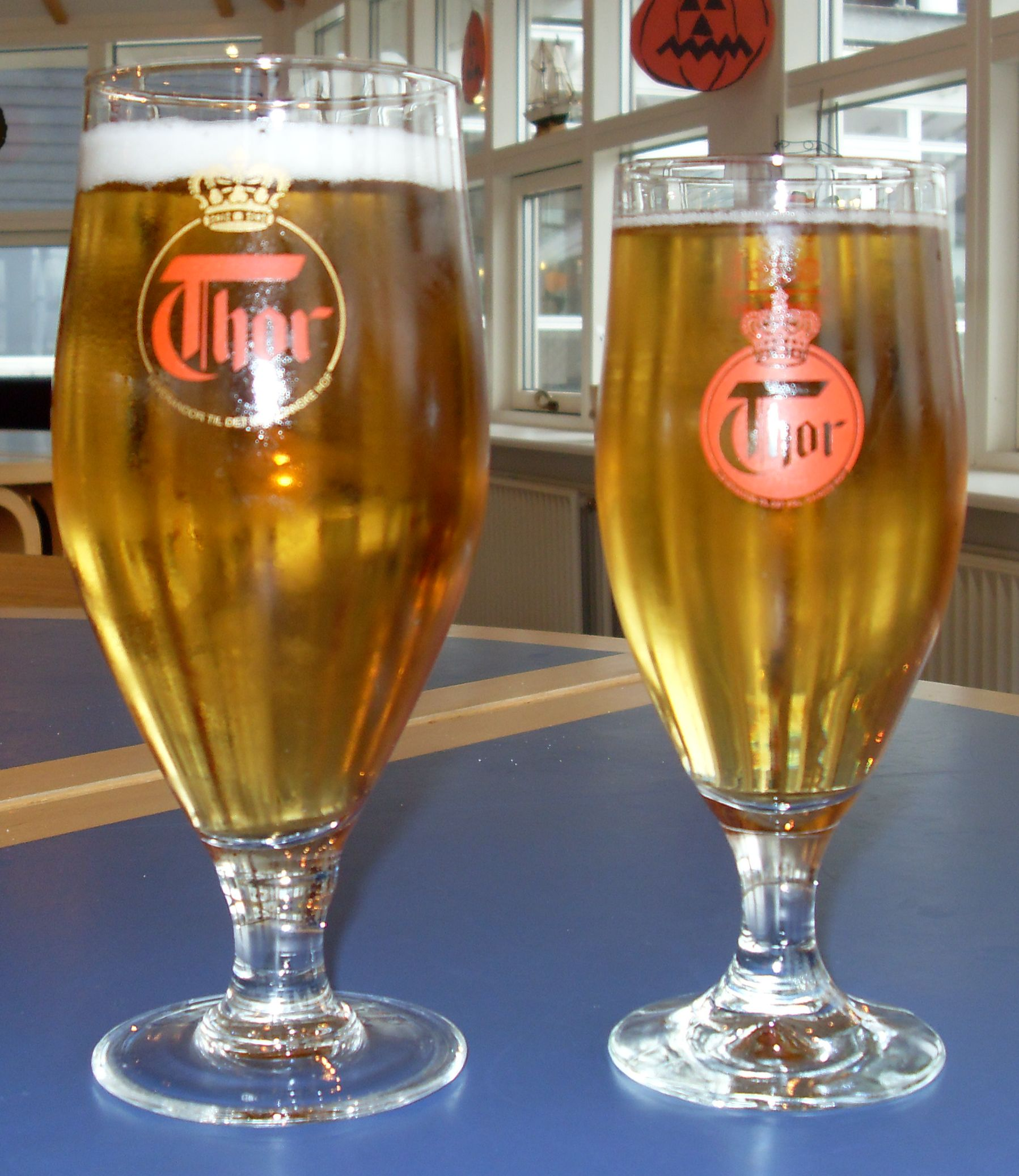 Thor beer from Denmark (Royal Unibrew, brewed in Randers)